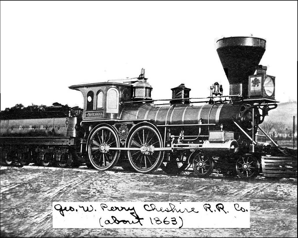 TITLE "George W. Perry" of the Cheshire Railroad in Keene, NH CREATOR SUBJECT Railroads - NH - Keene Railroad locomotives - NH - Keene DESCRIPTION Photograph of the "George W. Perry" of the Cheshire Railroad in Keene New Hampshire, taken about 1863. PUBLISHER Keene Public Library DATE DIGITAL 20080428 DATE ORIGINAL 1863? RESOURCE TYPE photographic postcards FORMAT image/jpg RESOURCE IDENTIFIER hsyktnp009 RIGHTS MANAGMENT No known restriction on publication.